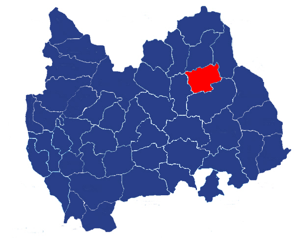 Map showing location of Thurles Roman catholic parish within those of the dioces of Cashel and Emly